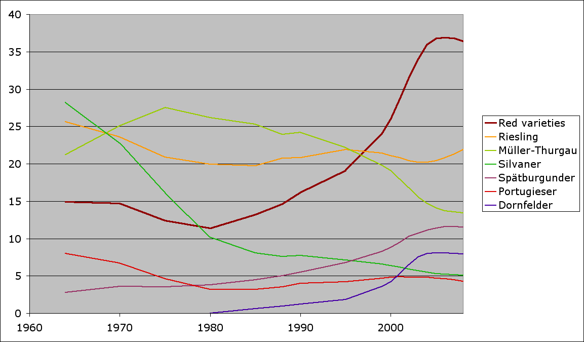 Distribution of some common grape varities in Germany, 1964-2007. Data for 1964-2006 comes from German Wine Statistics published annually by the German Wine Institute, data for 2007 comes from German Federal Statistical Office.